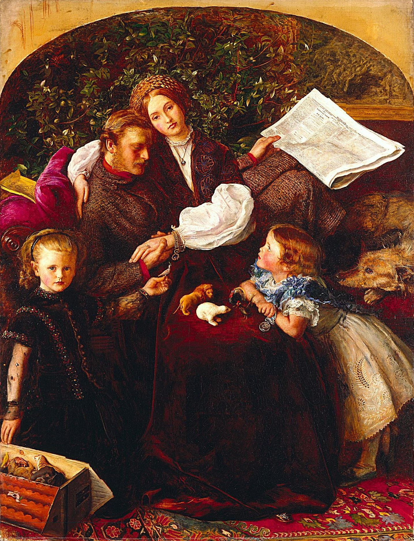 Peace Concluded (model Effie Gray)